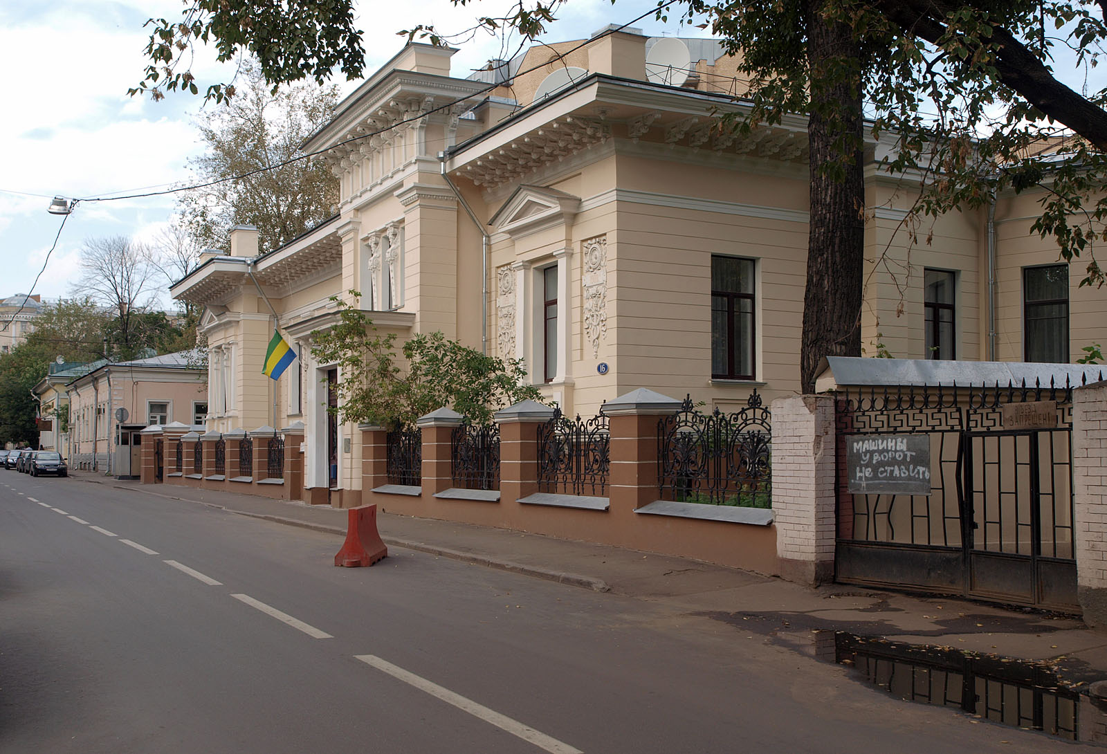 Embassy of Gabon in Moscow (Arbat district, Denezhny Lane 16) is conveniently located in the block adjacent to the ministry of foreign affairs.)